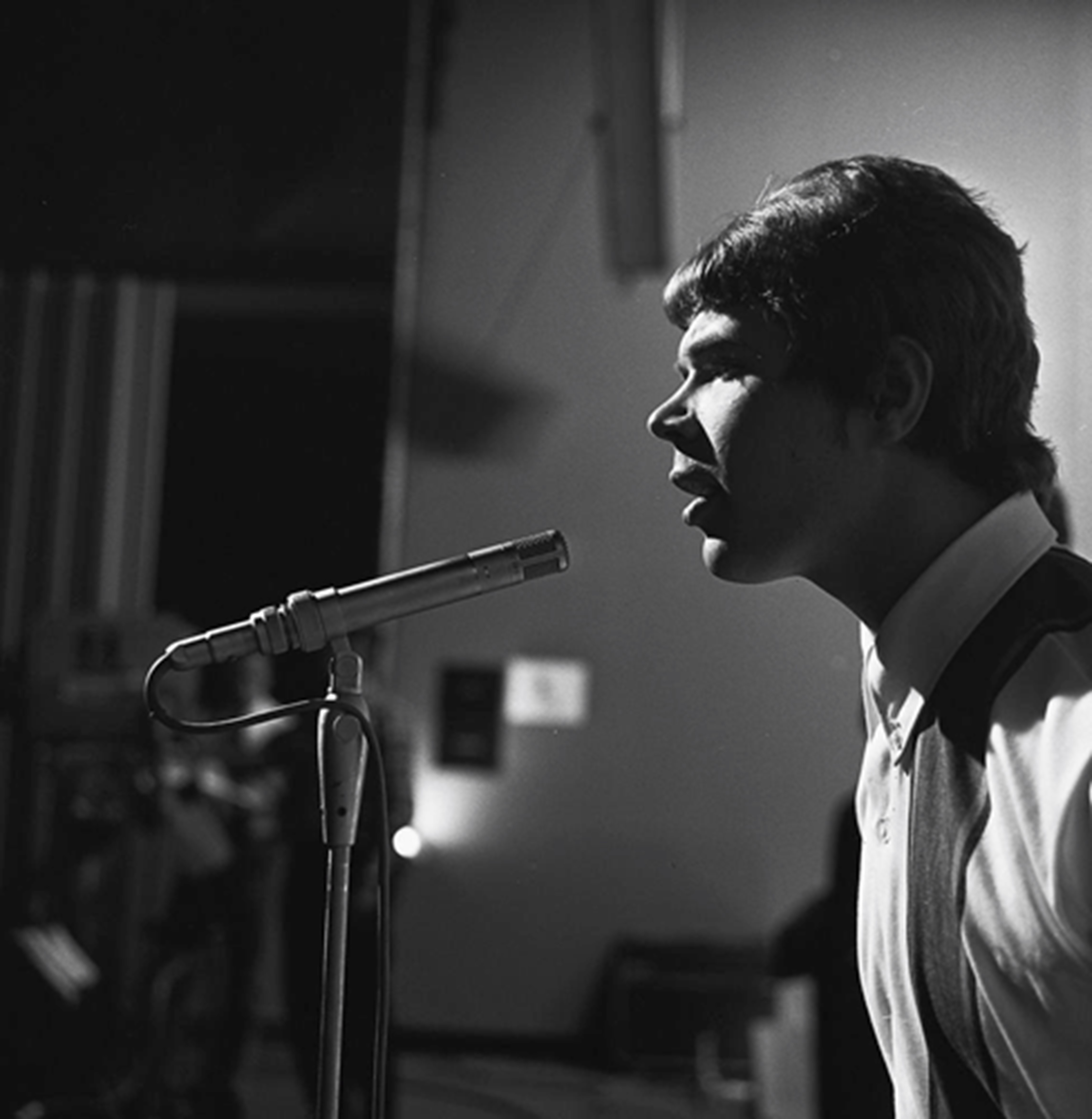 Dutch beat group Tee Set (singer Peter Tetteroo) singing "Early in the morning" and "Nothing can ever change". Dutch TV programme "Fanclub". Recording date 17 September 1966, broadcast date 23 Sept. 1966.